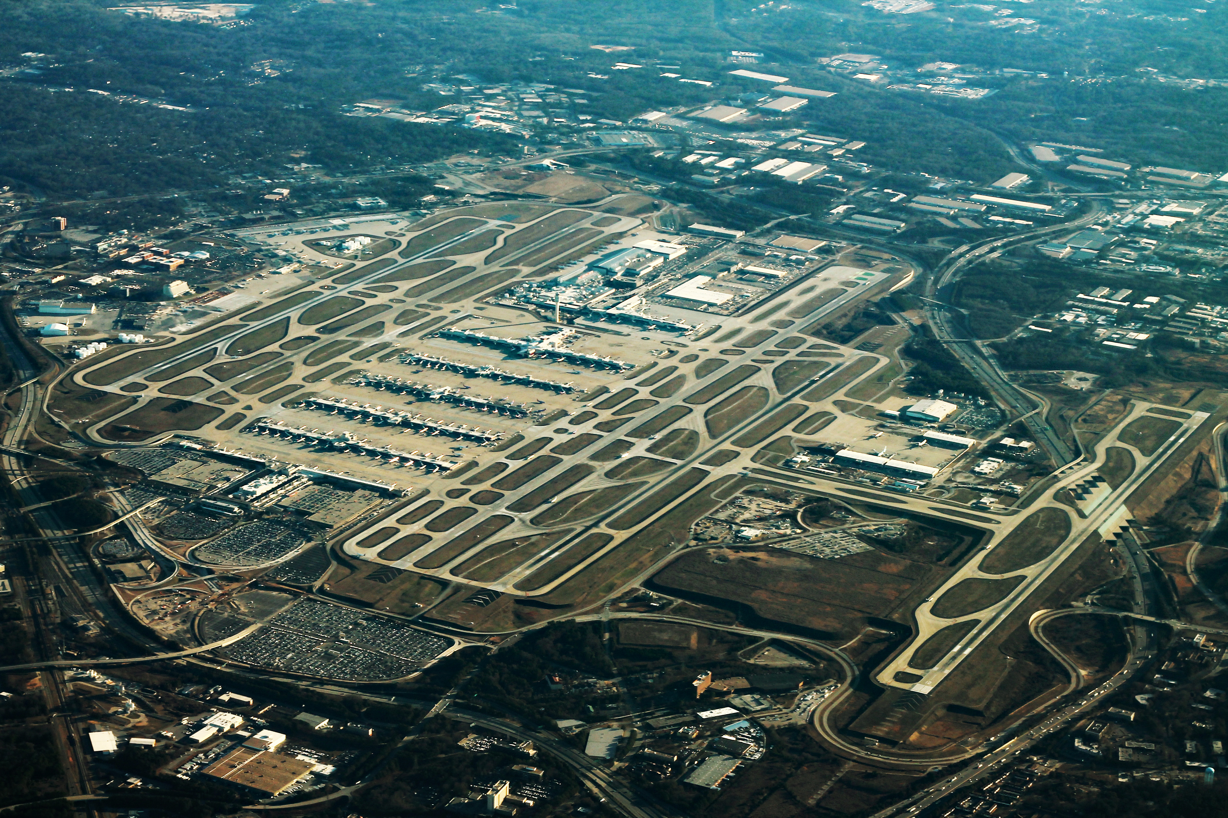 An aerial overview of Hartsfield-Jackson International Airport in January 2015